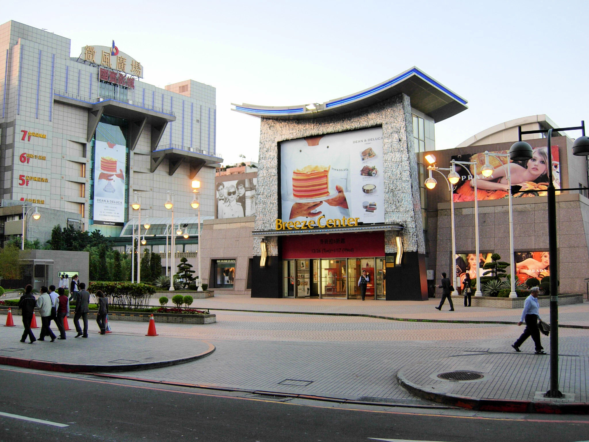 Breeze Center